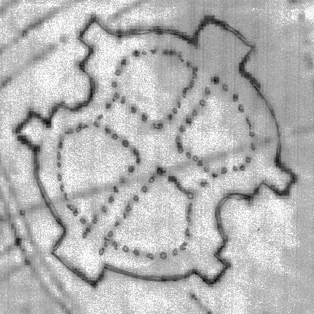 The outline of the baroque landscape feature in 1747 in Benslie Wood, North Ayrshire, Scotland.